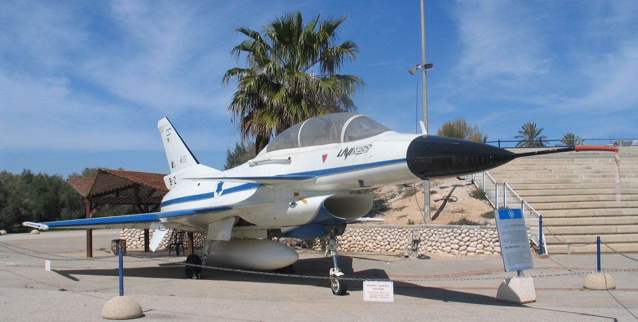 Description: IAI Lavi B-2 prototype at Muzeyon Heyl ha-Avir, Hatzerim, Israel. 2006. Source: Photo by me, User:Bukvoed.